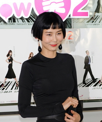 Kim Na-young at the press conference of FashionN Follow Me Season 2, in August 2013